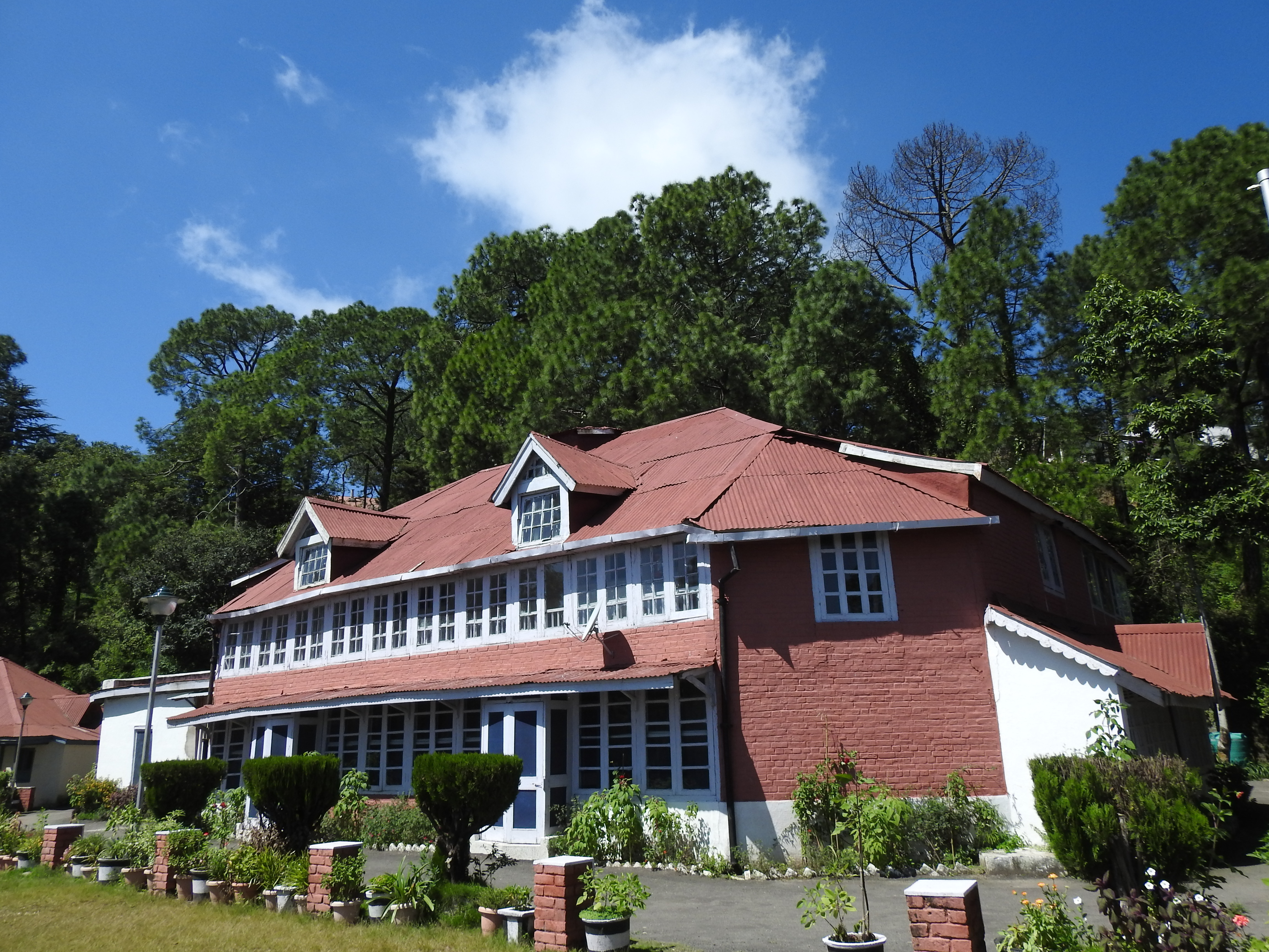 Kasauli Circuit House, British peroid heritage look building ,Himachal Prades ,India